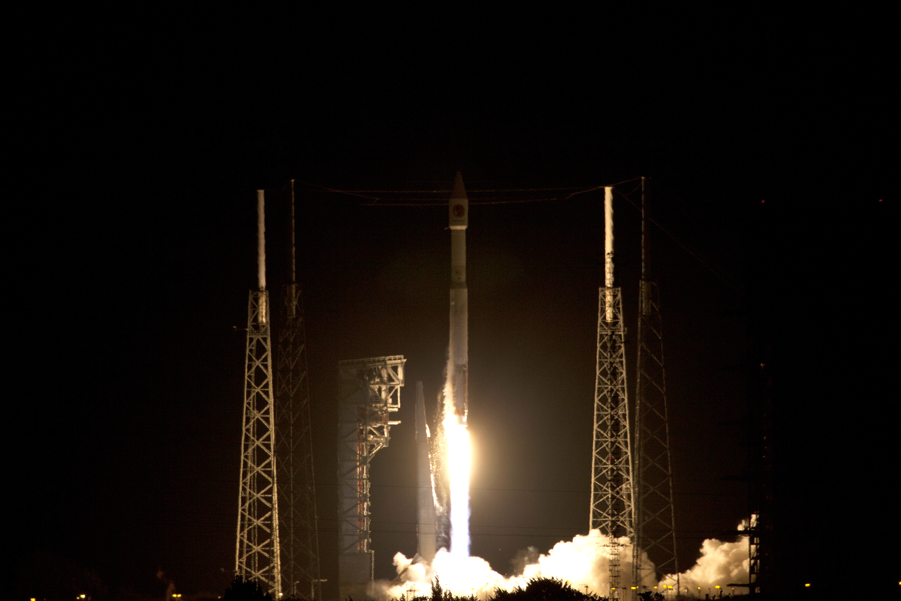 A United Launch Alliance Atlas V rocket lifts off from Space Launch Complex 41 at Cape Canaveral Air Force Station carrying an Orbital ATK Cygnus resupply spacecraft on a commercial resupply services mission to the International Space Station. Liftoff was at 11:05 p.m. EDT. Cygnus will deliver more the second generation of a portable onboard printer to demonstrate 3-D printing, an instrument for first space-based observations of the chemical composition of meteors entering Earth’s atmosphere and an experiment to study how fires burn in microgravity.